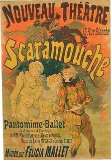 1891 poster for the ballet/pantomime Scaramouche, written by Maurice Lefèvre and Henri Vuagneux, with music by André Messager (1853-1929), starring Félicia Mallet